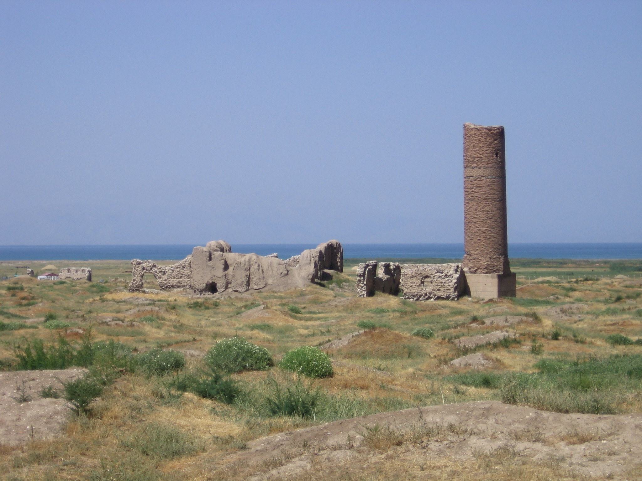 Ruins at the location of old city of Van - view towards Van lake. photo by Wikimol, 2005